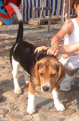 A beagle puppy